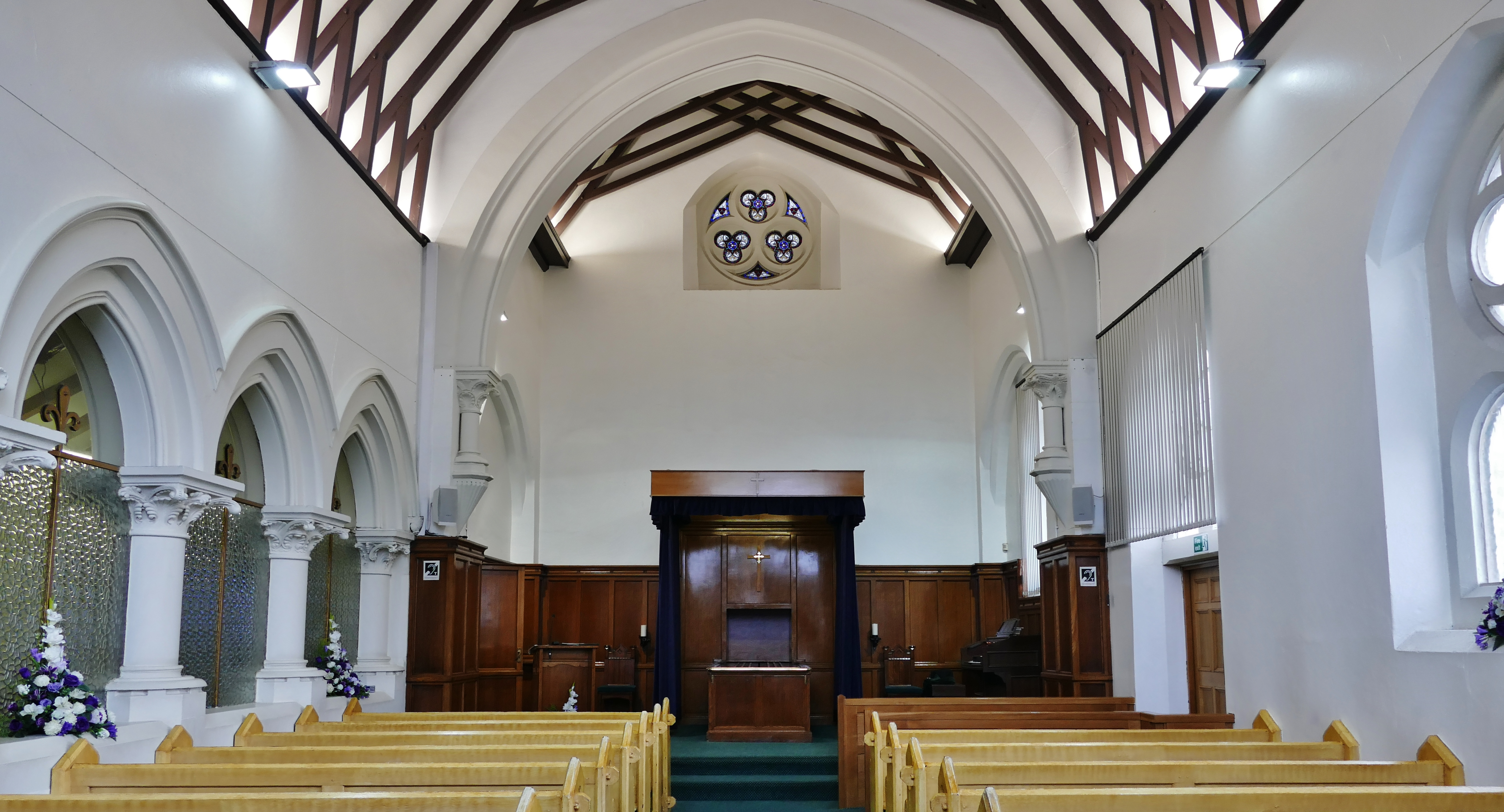 Dukinfield Crematorium Interior